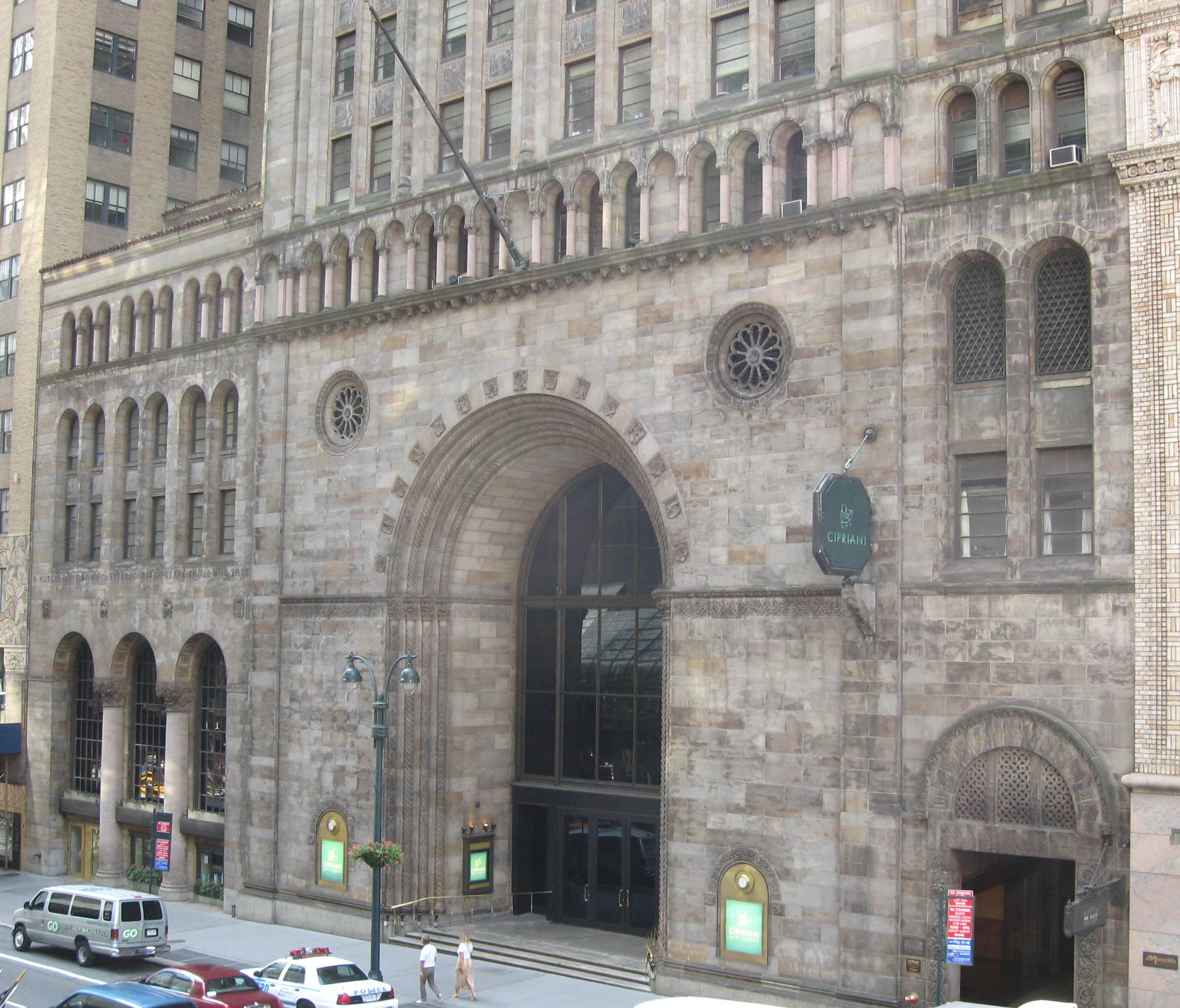 Looking southeast at Bowery Savings Bank, now a restaurant, from Grand Central Terminal Park Avenue Viaduct. See also File:Bowery-savings-bank.jpg.